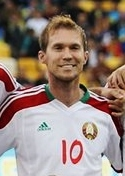 Aliaksandr Hleb